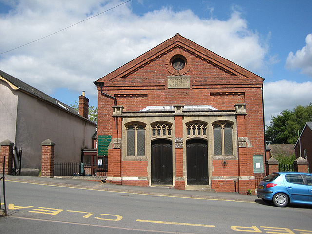 Bromyard Methodist Church The chapel was built in 1857, although Methodists had been meeting in an upper room in nearby Pump Street earlier in the century. The datestone reads Wesleyan Chapel, MDCCCLVII.